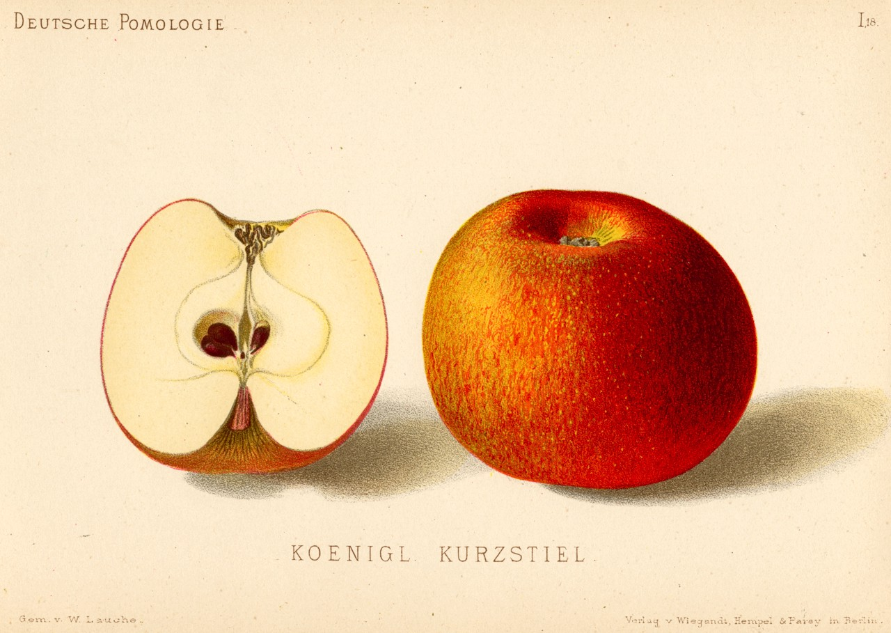 Illustration 18 from Deutsche Pomologie - Aepfel Apple cultivar shown: Königlicher Kurzstiel